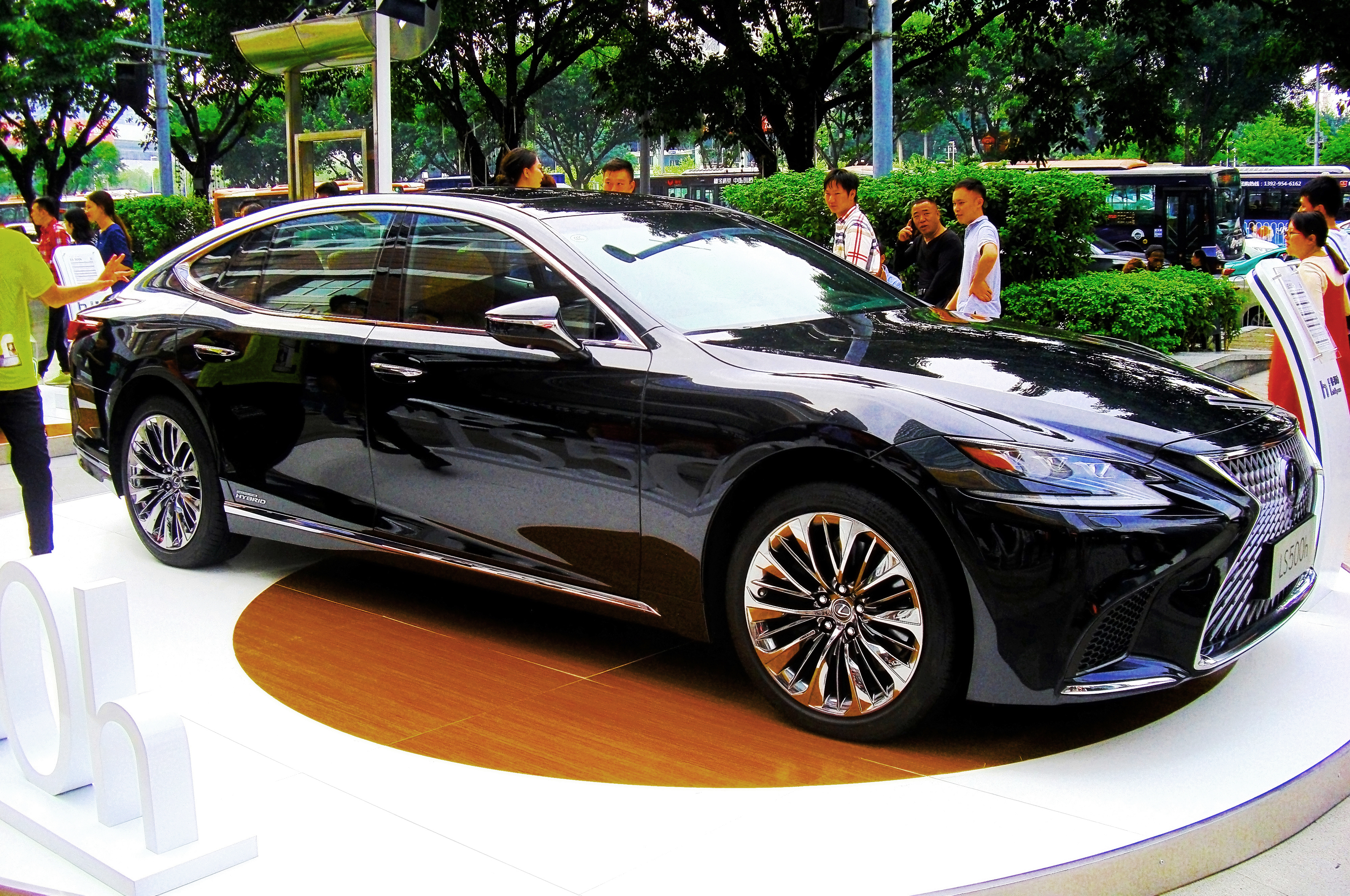 Lexus LS500h (GVF50) photographed in Tianhe, Guangzhou. It was Made in Tahara, Japan. And it was powered by 8GR-FXS Multi-Stage Hybrid System (Made by Lexus, Toyota).